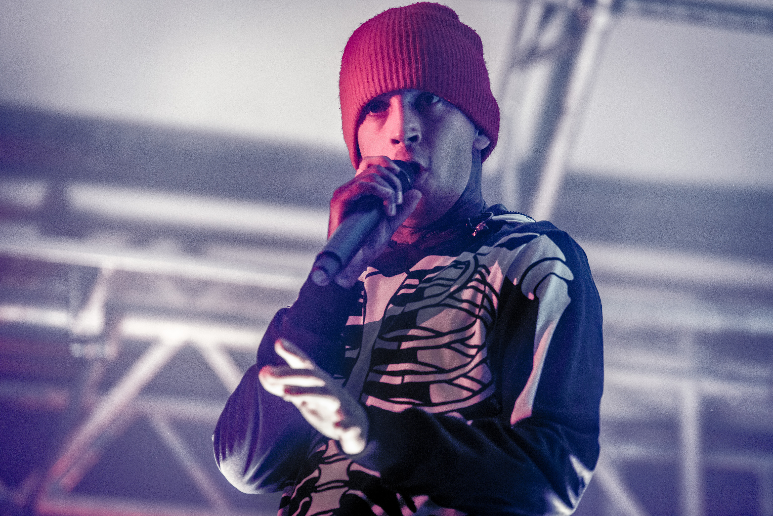 Twenty One Pilots Live @ Munich 2016